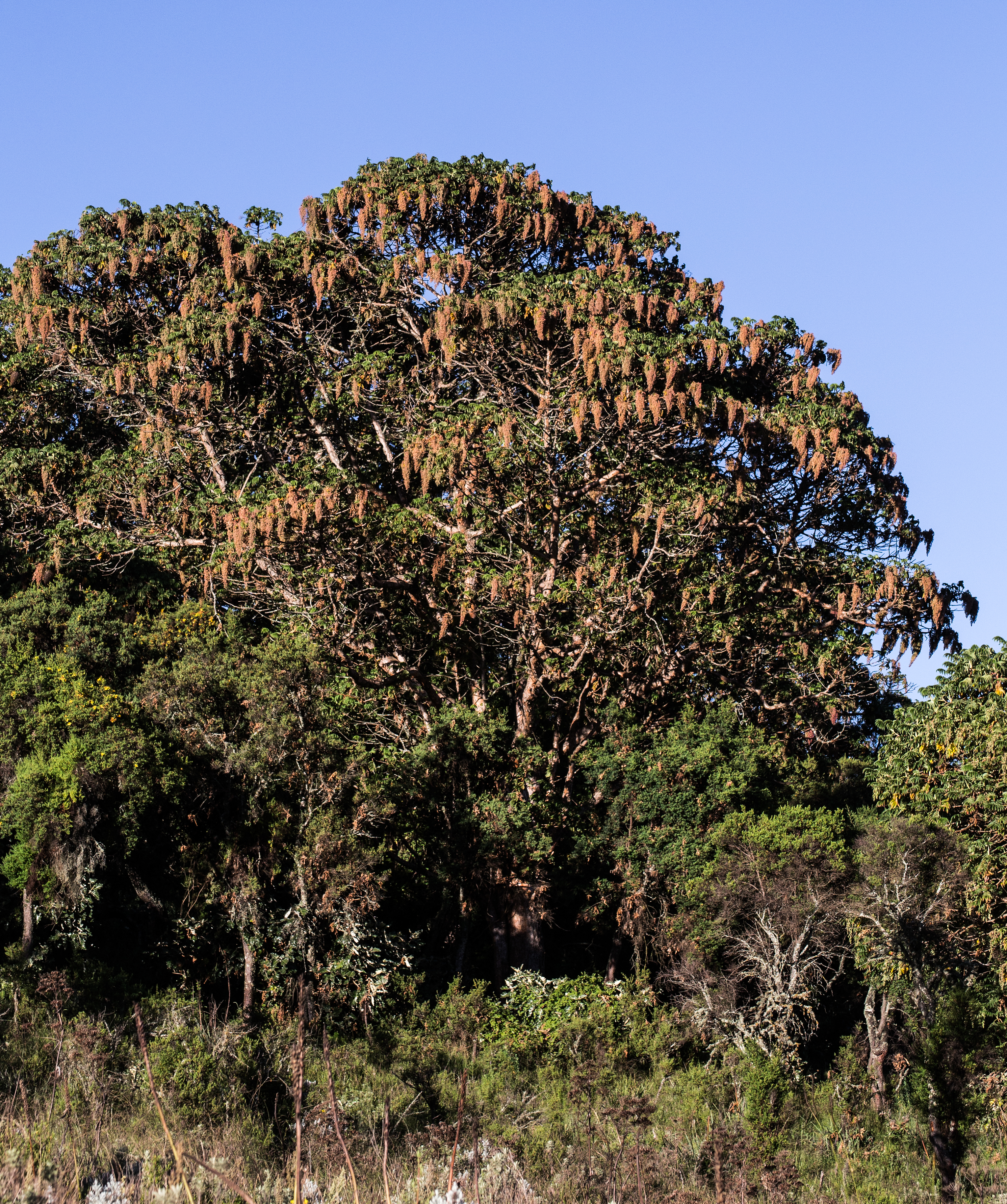 Hagenia